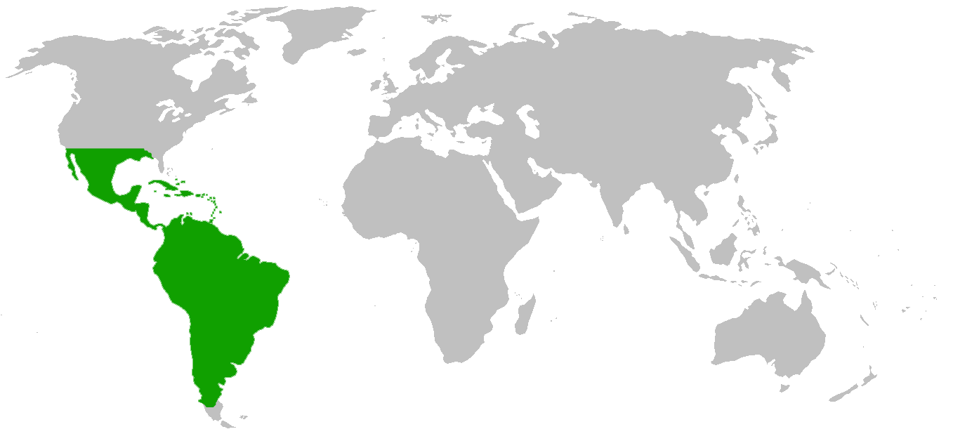 Distrubution of Theraphosinae. Schmidt, 2003